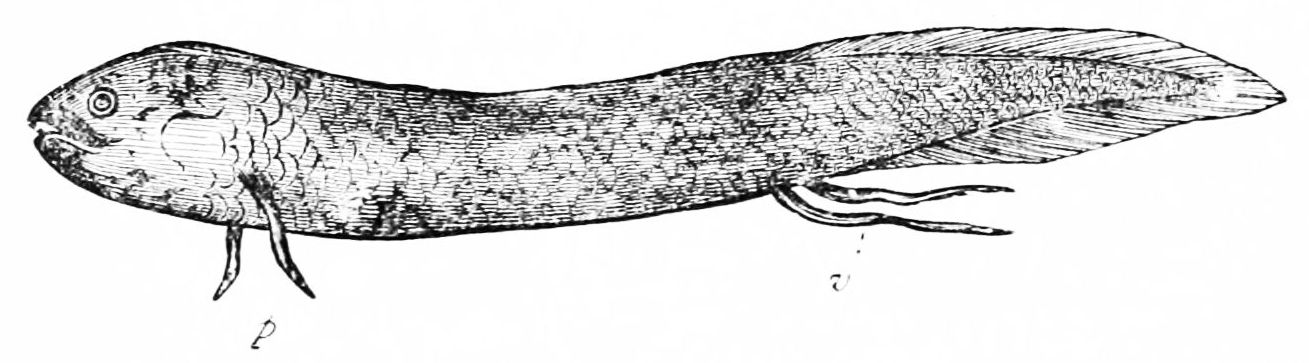 Lepidosiren annectens (Syn. Protopterus annectens annectens) using the air bladder as a lung